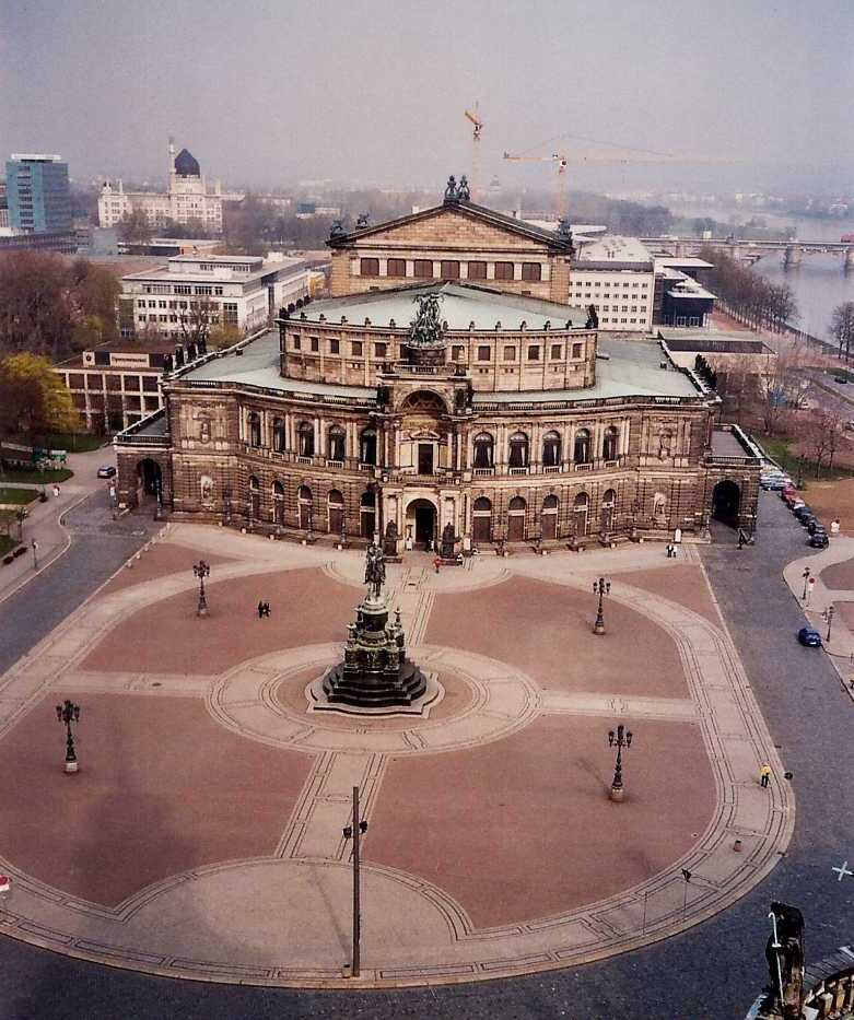 Dresdens Semperoper and the Theaterplatz seen from the Hausmannsturm, part of the castle